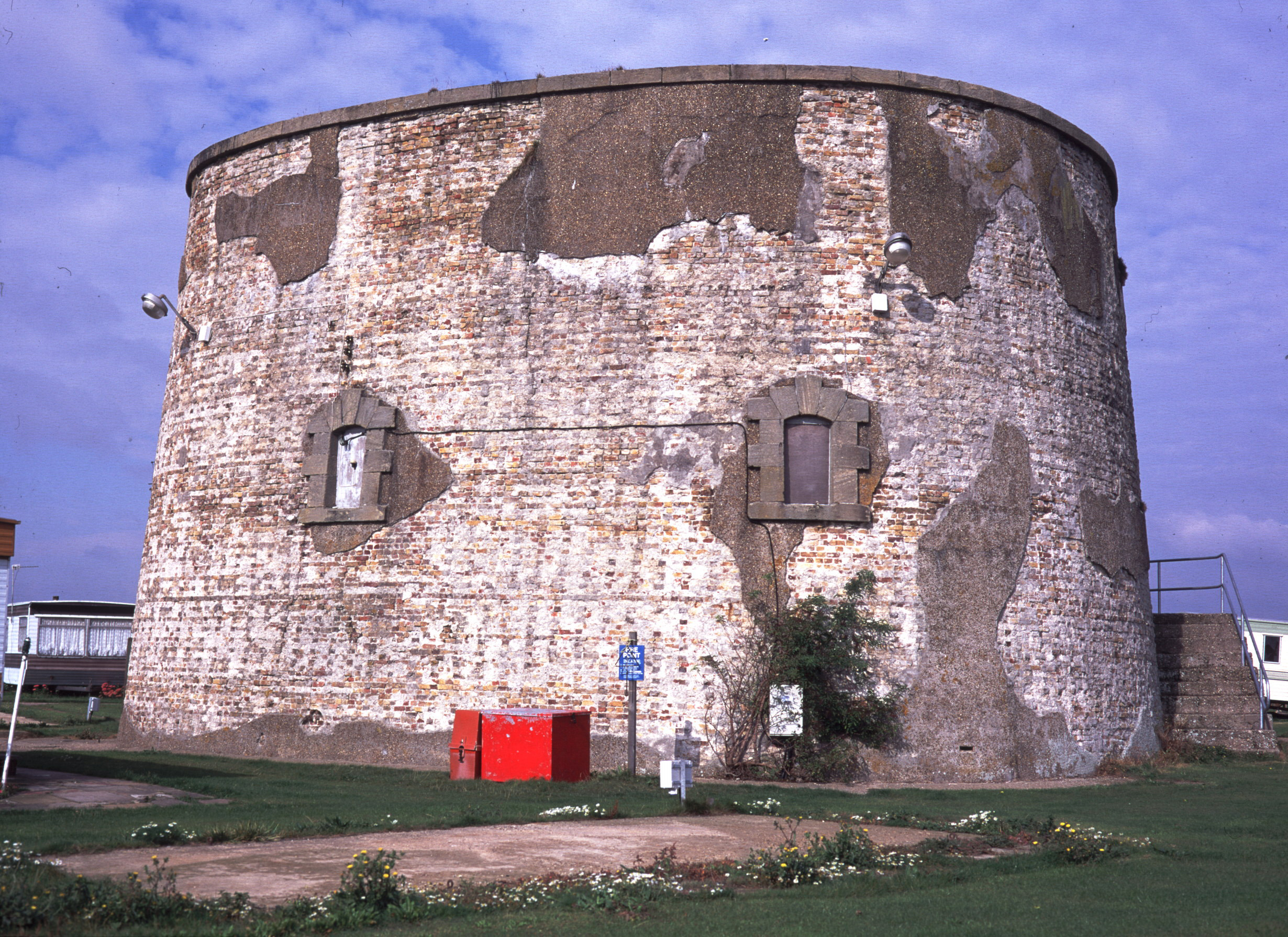 A photograph taken of Jaywick Martello Tower in the 1990's.